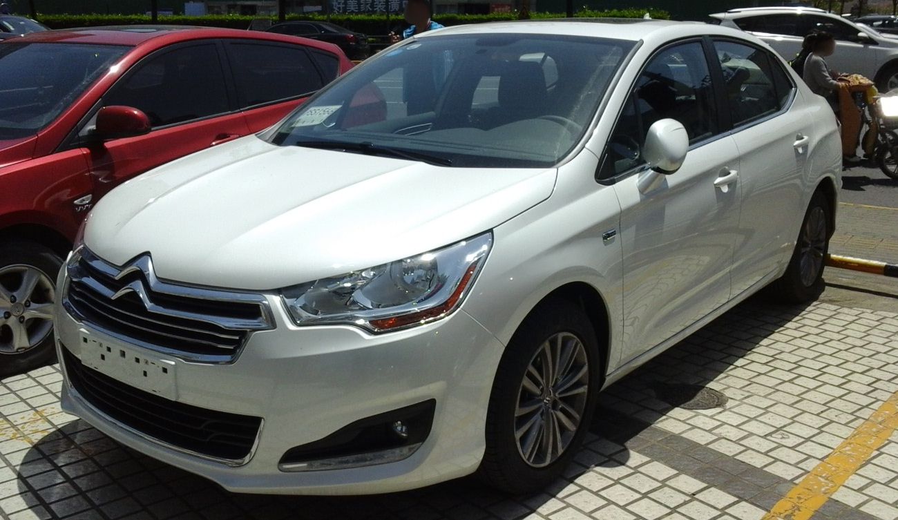 Citroën C4L photographed in Shanghai, China.